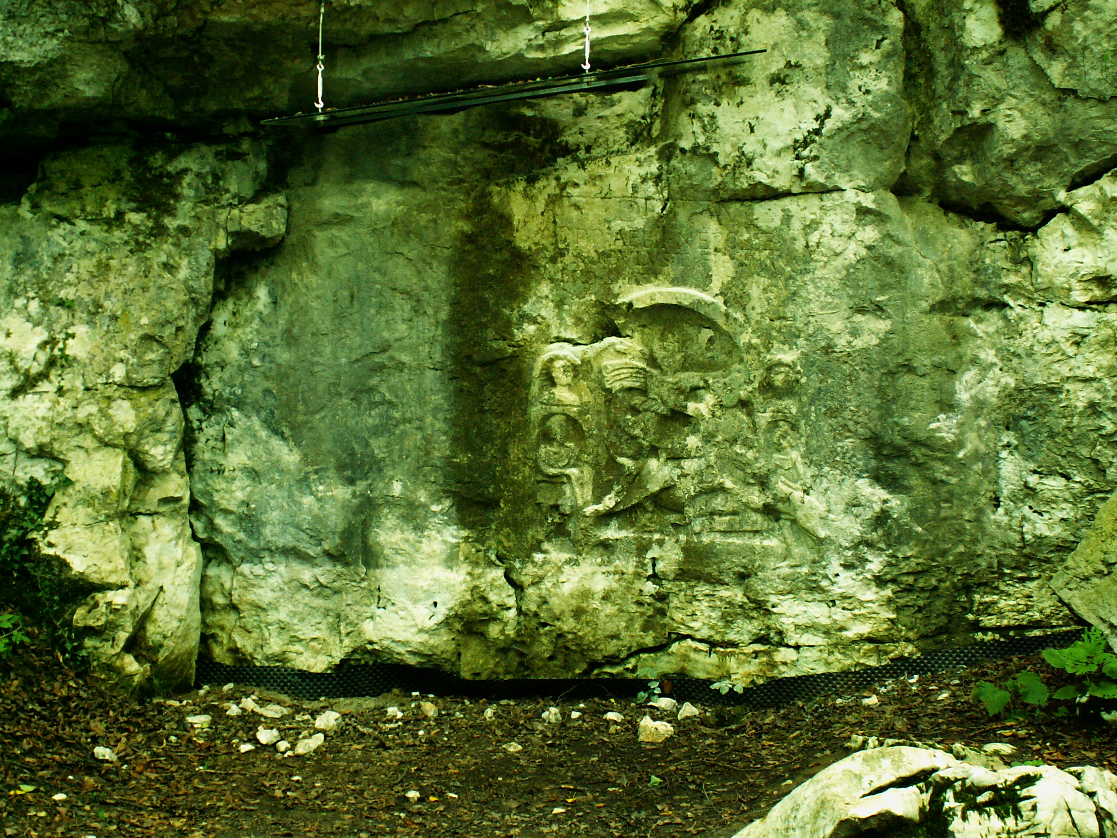 Cult relief of the Roman god Mithras (CIMRM 1482) found in the open space mithraeum north-west of Črnomelj/Tschernembl near Rožanec, Slovenia (CIMRM 1481). The dedicatory inscription reads: D(eo) i(nvicto) M(ithrae) / d(omino?) P(ublius) P(ublii) Aelii Nepos et / Proculus et Firminus / pro salute sua suorumque (CIMRM 1483, CIL III 3933).